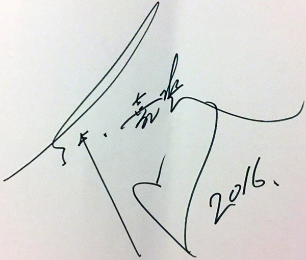 This is Chin Ka Lok's signature.